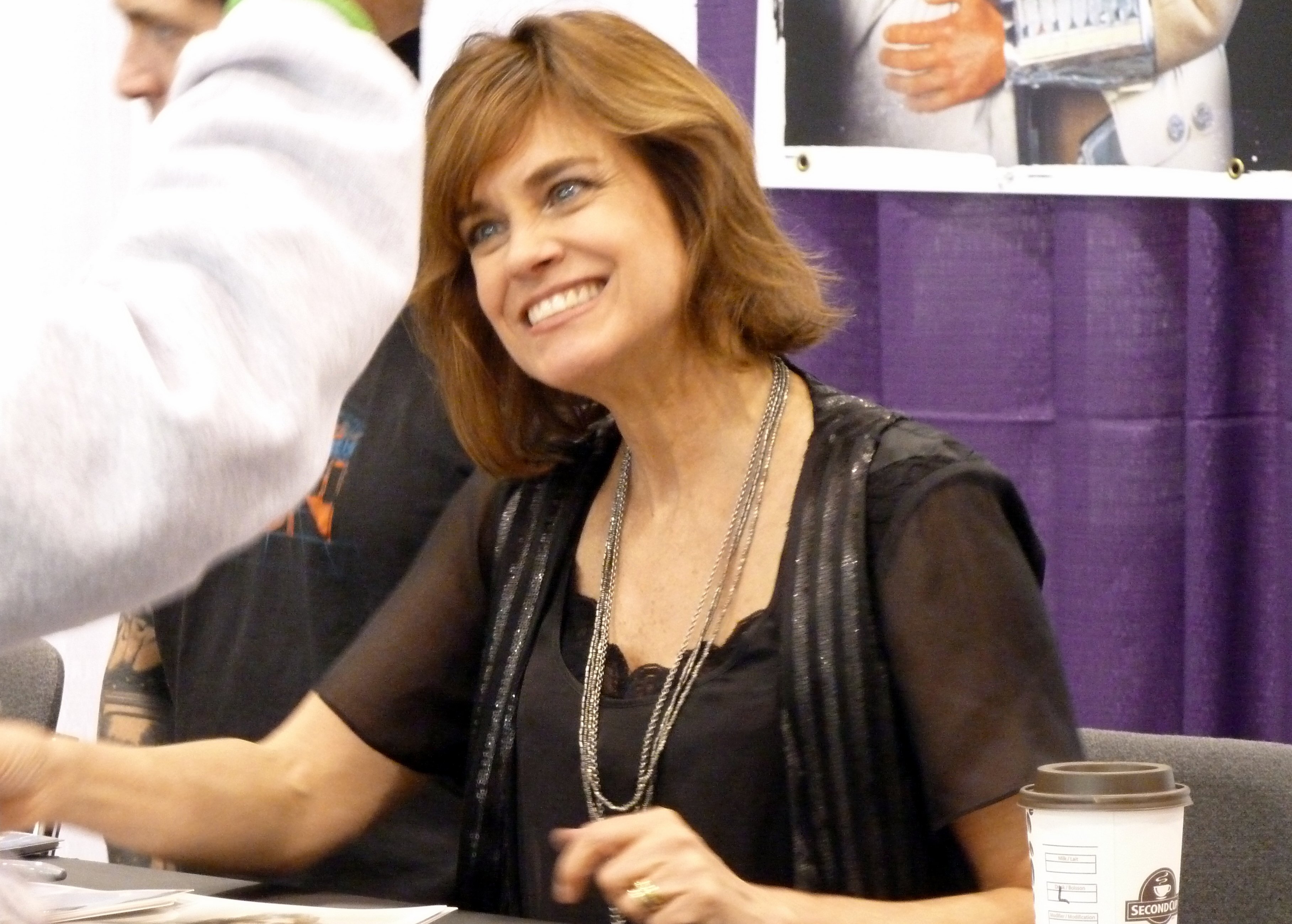 Catherine Mary Stewart from The Last Starfighter in 2012 Wizard World Toronto.